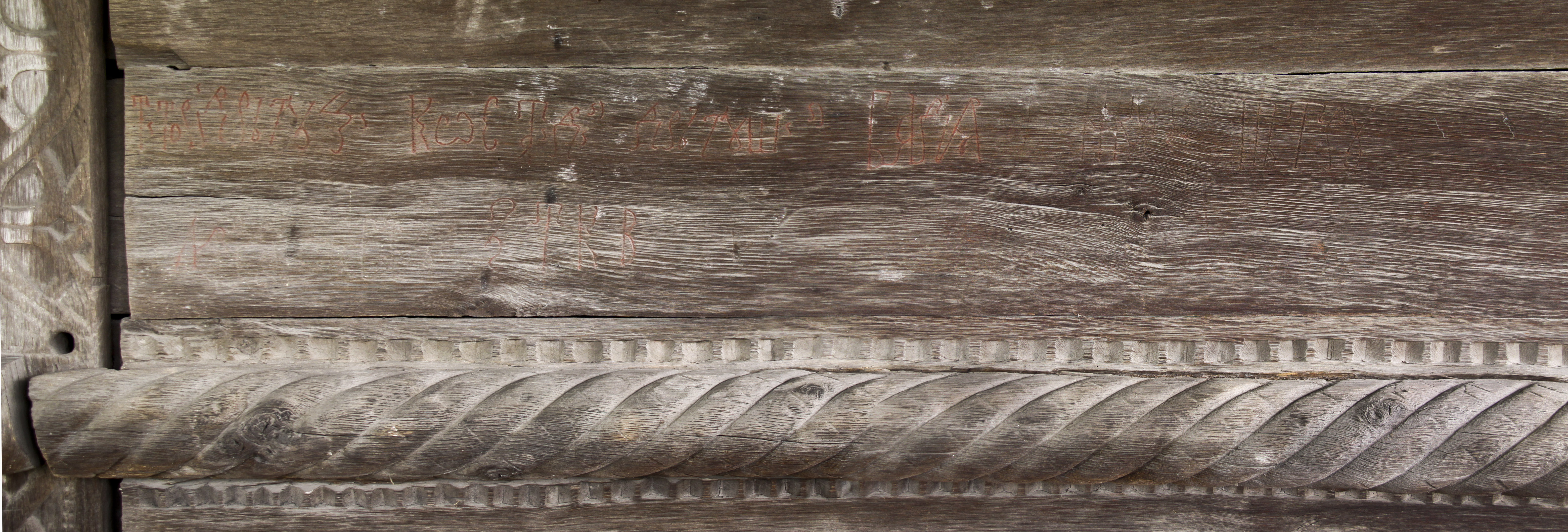 Drăguţeşti in Cotmeana, Argeş county, Romania: the wooden church, at present in the Goleşti Viticulture and Tree Growing Museum.